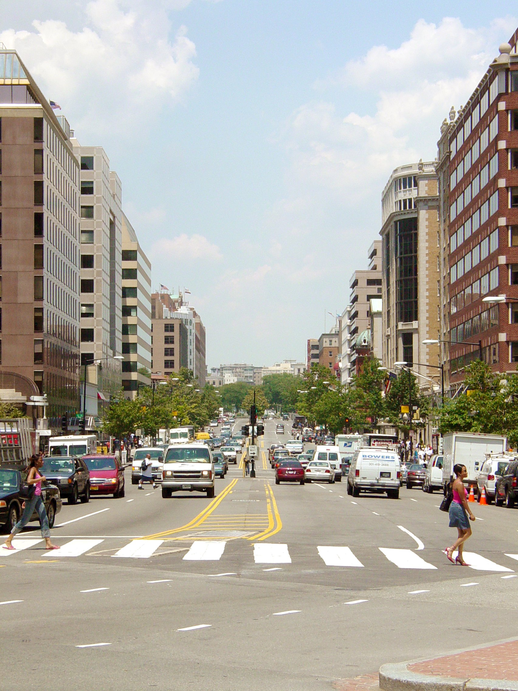 Original description: Traffic up and down Connecticut Avenue NW in Washington DC as seen from the northwest corner of Farragut Square. [Additionally, Dupont Circle is visible in the background of this photo.]